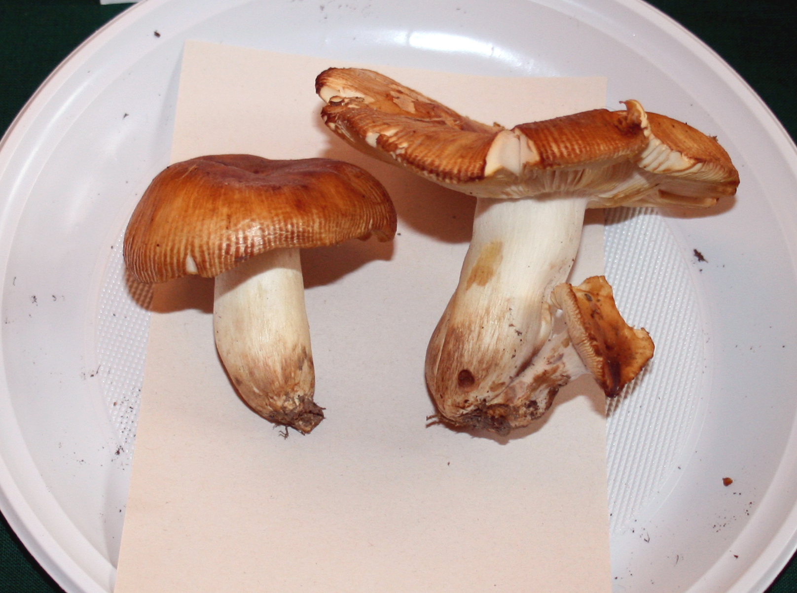 Russula subfoetens Russula subfoetens at the 12-th countrywide mushroom exhibition 2008, Žofín, Prague, Czech Republic